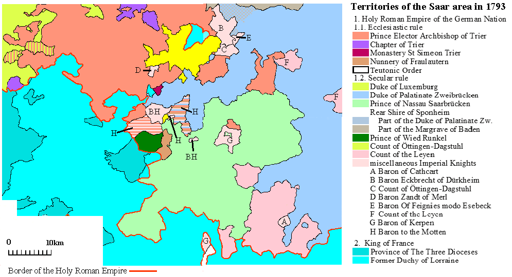 Historical map of the Saarland in 1793